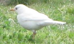 A leukistic blackbrird